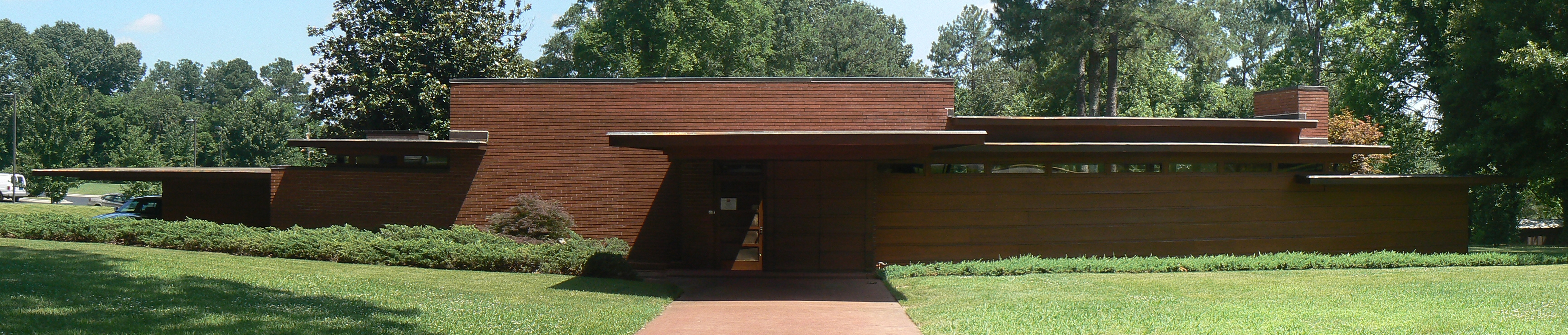 Stitched view of the "rear" (street) side of the Rosenbaum House. This house in Florence, AL, USA was designed by Frank Lloyd Wright in his Usonian style for Stanley and Mildred Rosenbaum, and was built in 1940.